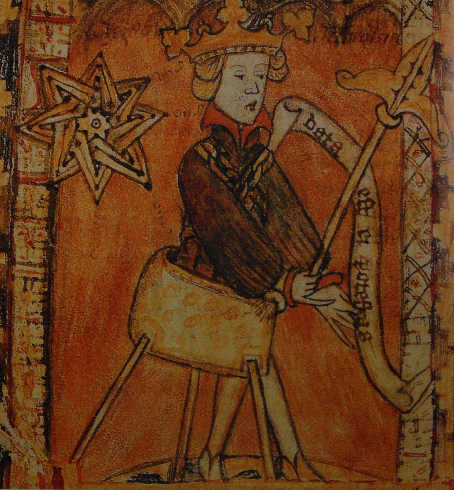 King Magnus Eriksson IV of Sweden, VII of Norway, on the title page of his Swedish national law (Magnus Erikssons landslag), according to historian Jan Svanberg dated 1430, 56 years after Magnus's death; Svanberg (pp. 176-178) does not deem it unlikely that this picture bears some resemblance to what Magnus looked like